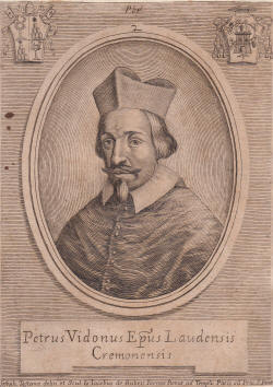 Pietro Vidoni (8 November 1610 – 5 January 1681) was an Italian cardinal and between 1652–1660 a papal legate and nuncio to Poland.